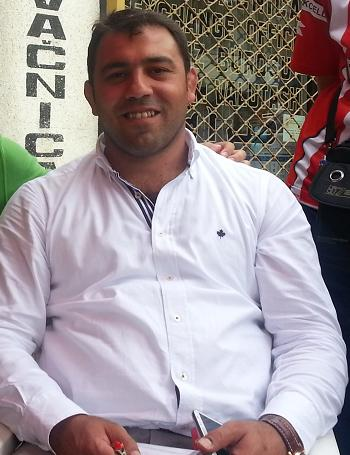 Hamza Yerlikaya, Turkish Graeco-Roman style wrestler and old deputy.